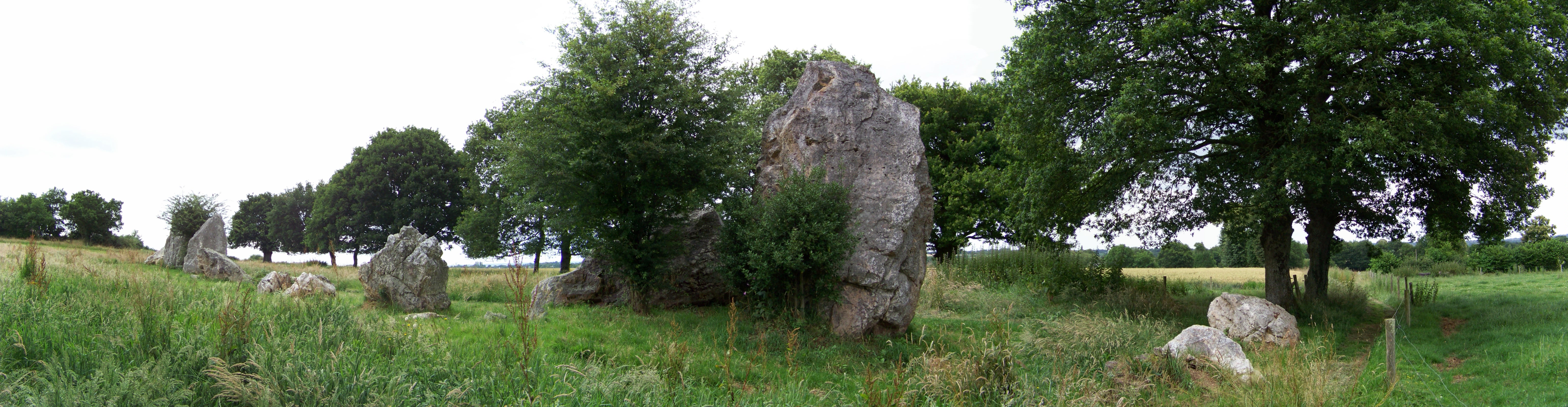 Lampouy stone rows, Mederieg, Ille et Vilaine, Brittany .